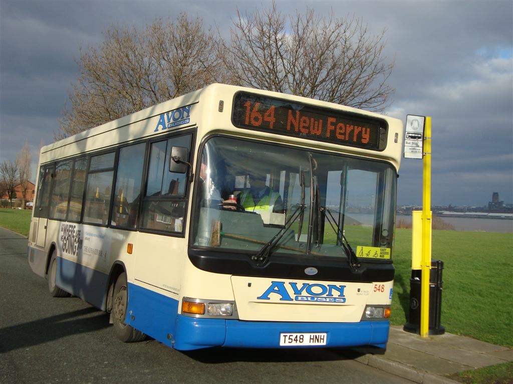 Avon Buses 548 (T548 HNH), a Dennis Dart SLF 8.8m/Plaxton Pointer 2 MPD, in Shorefields, New Ferry, on route 164. Unusually it is carrying an Alexander Dennis badge, despite being built much earlier than Alexander Dennis' foundation.